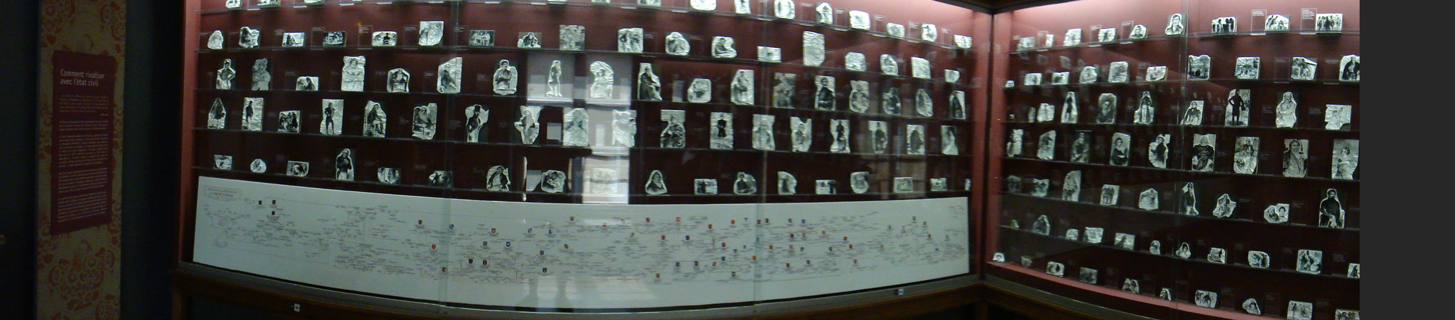 The timeline and genealogy of all the Balzac's characters, in one of the rooms of Maison de Balzac, in France